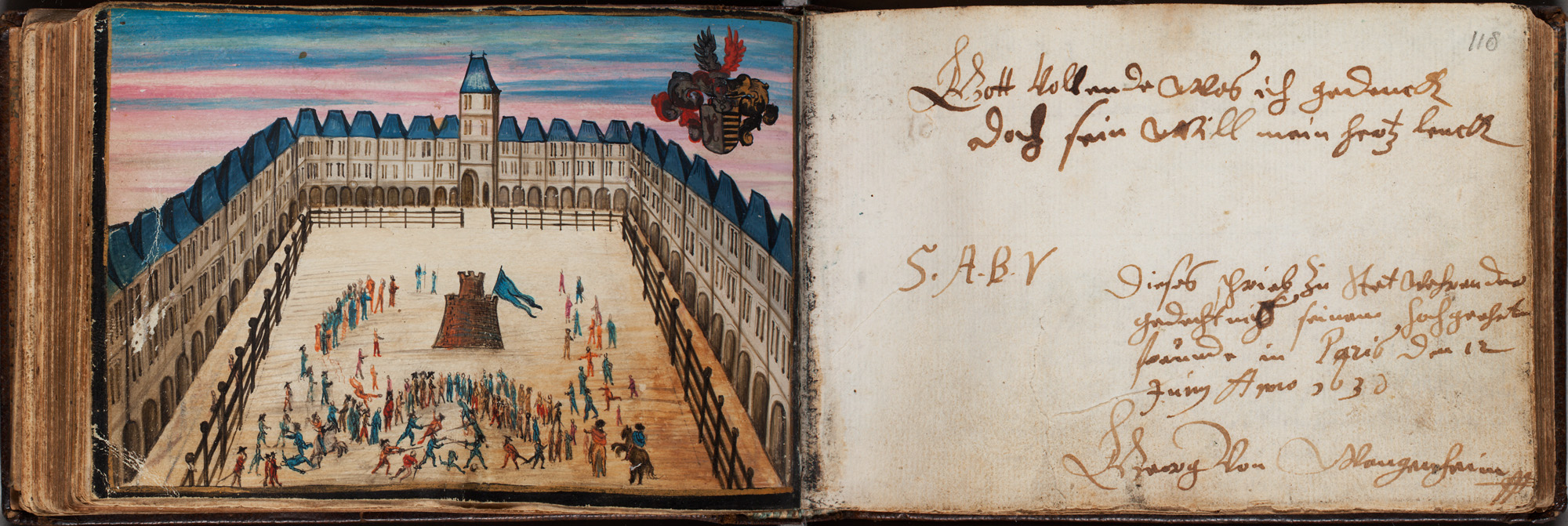 Album amicorum van Hans Heinrich Oberhaupt von Schwarzenfels, f. 117v-118r: Georg von Wangenheim, Parijs, 12 juni 1630 Zie ook: Image uploaded on 02-10-2013 from the Flickr stream of the Royal Library, The Hague (Koninklijke Bibliotheek, KB, national library of the Netherlands, Signatur: Den Haag, KB : 71 H 22)